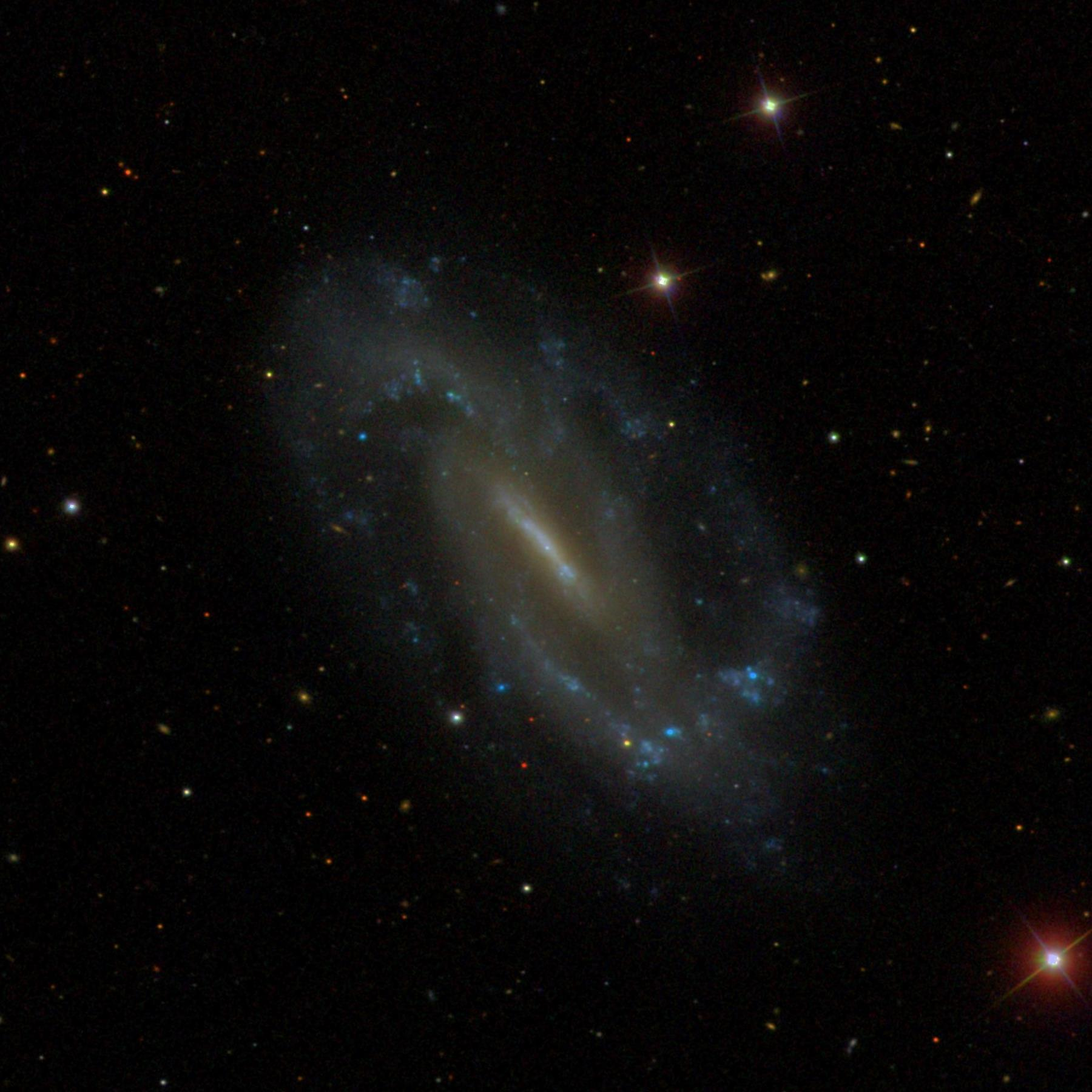 Angle of view: 9' × 9' (0.3" per pixel), north is up.